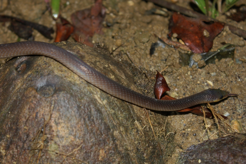 Found next to the Loboc river on Bohol.